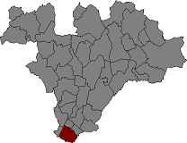 Location of Sant Fost de Campsentelles in Vallès Oriental